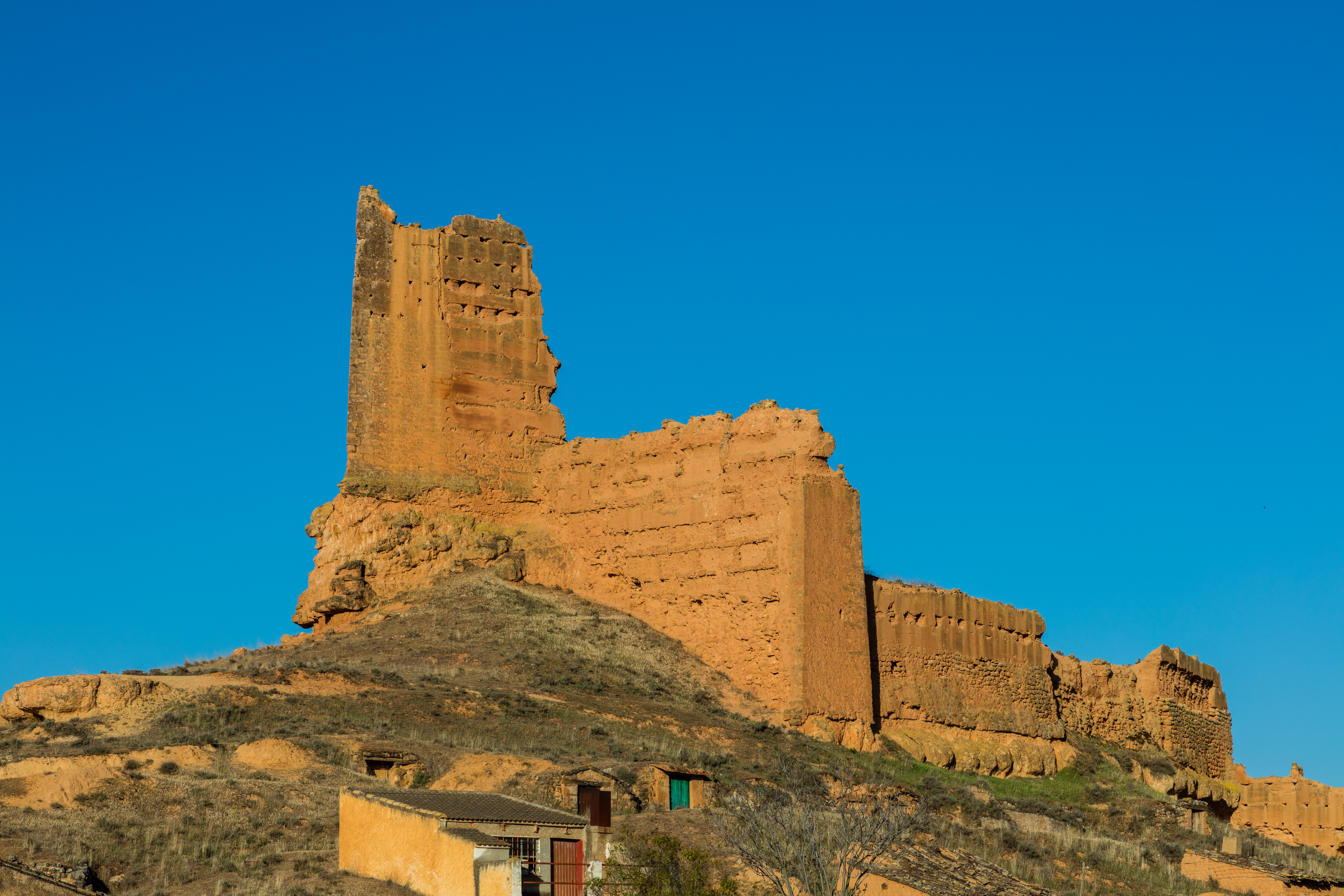 Castle, Monreal de Ariza, Zaragoza, Spain